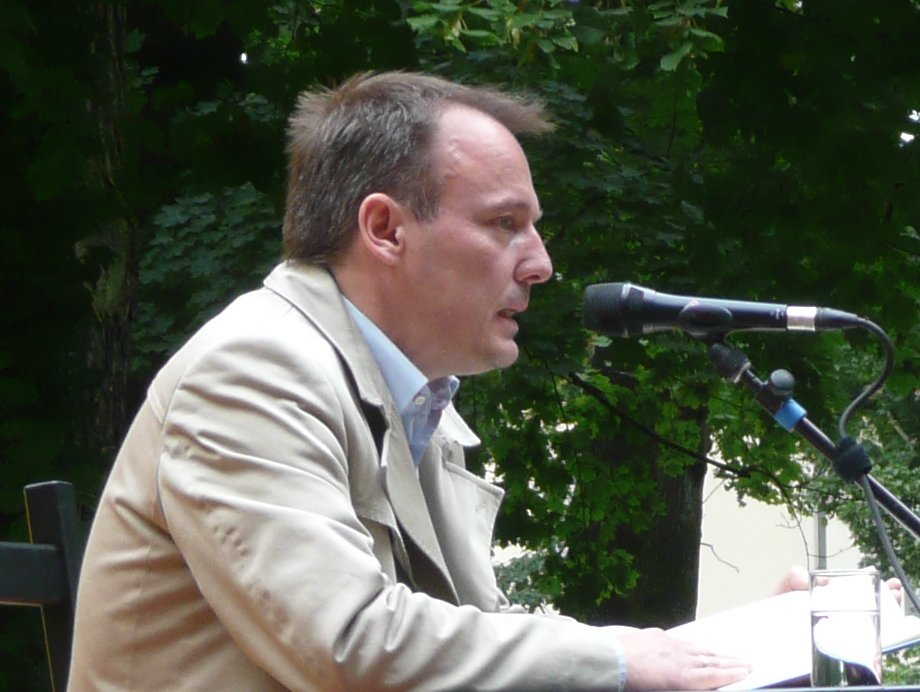 german writer, essayist and poet Mirko Bonné reading at the Erlanger Poetenfest 2010